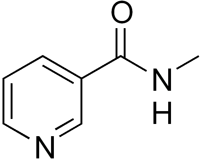 chemical structure of nicotinyl methylamide (N-methylnicotinamide)